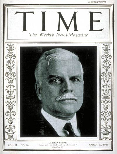 Time Magazine cover from Volume 3, issue 10 of March 10, 1924 featuring Warren S. Stone of the Brotherhood of Locomotive Engineers